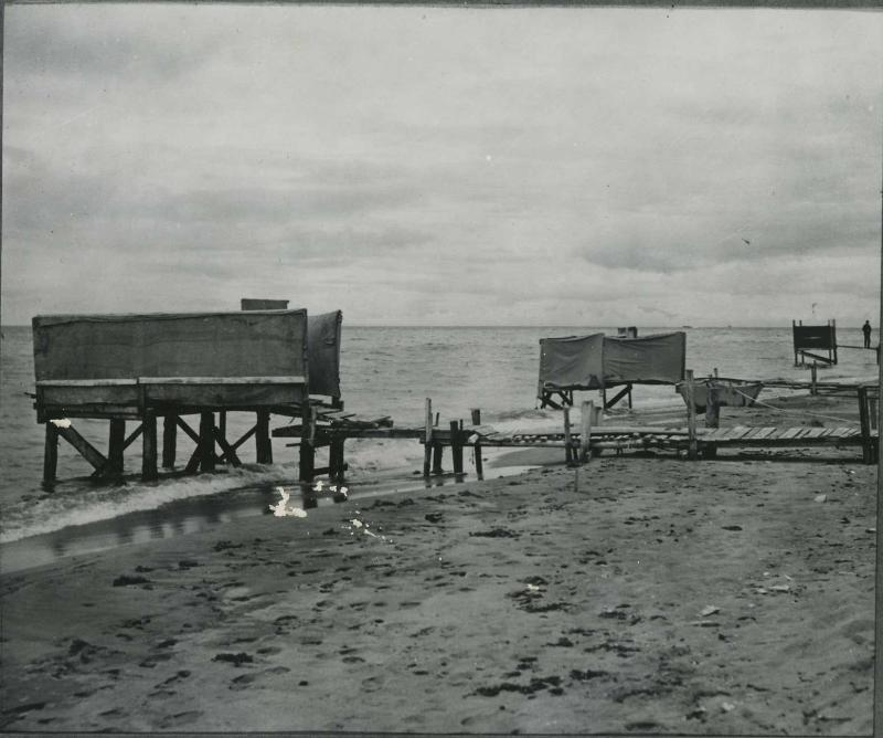 Latrine, tide water. Typical over-water or tide-water latrine. They must be constructed so as to be over water at low tide which in turn must have a strong ebb to carry fecal matter out to sea. Probably World War 2